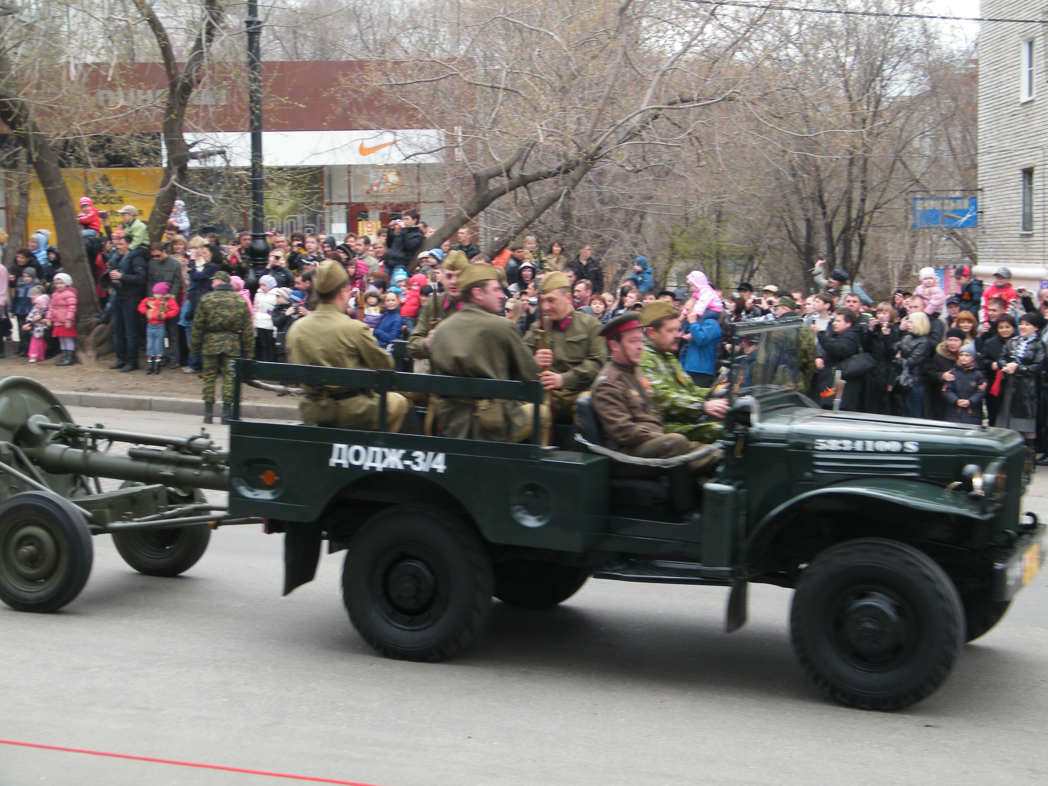 Dodge WC-51